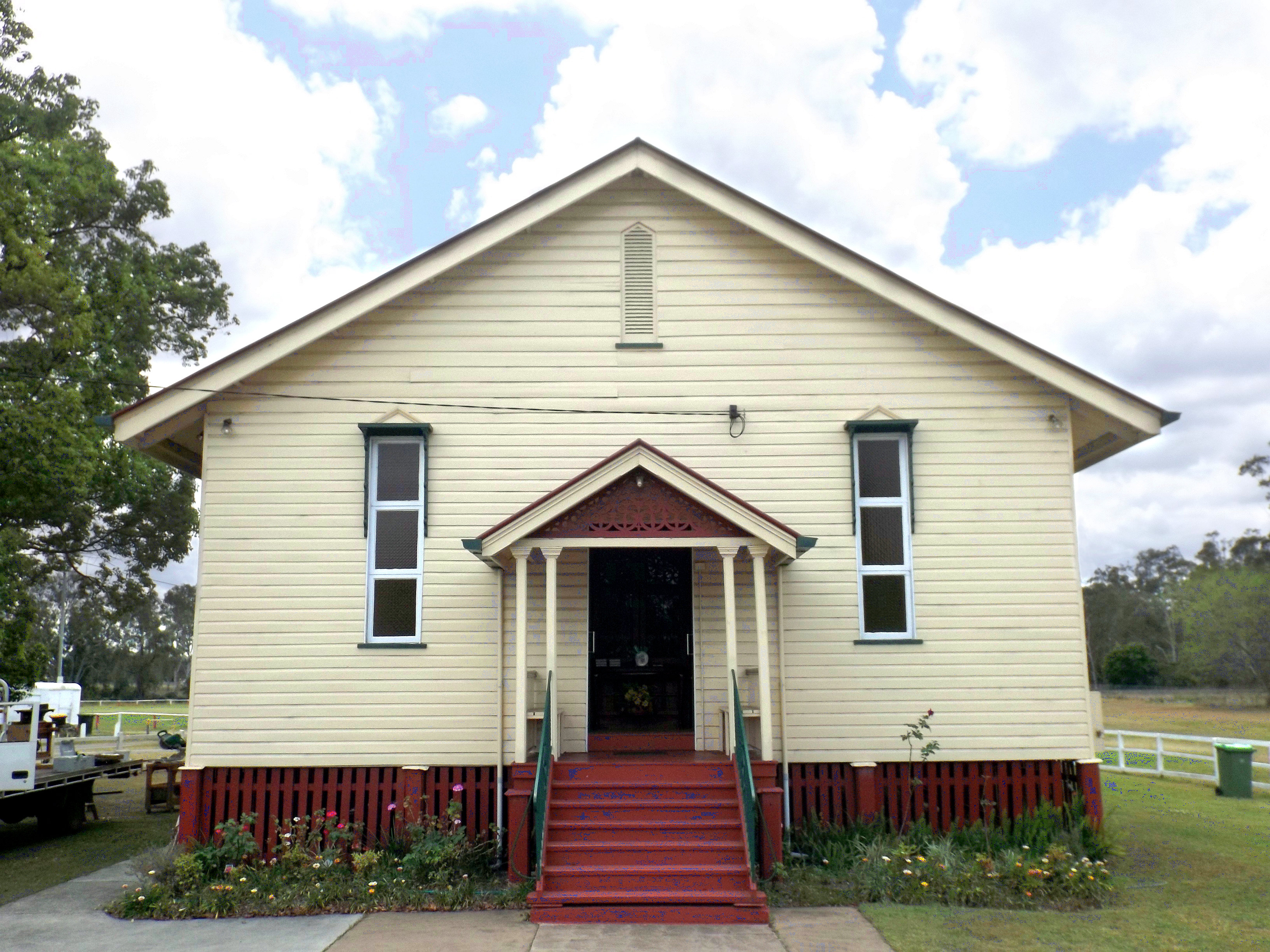 Photo of the front of the United Welsh Church at Blackstone, Ipswich, Queensland, Australia.